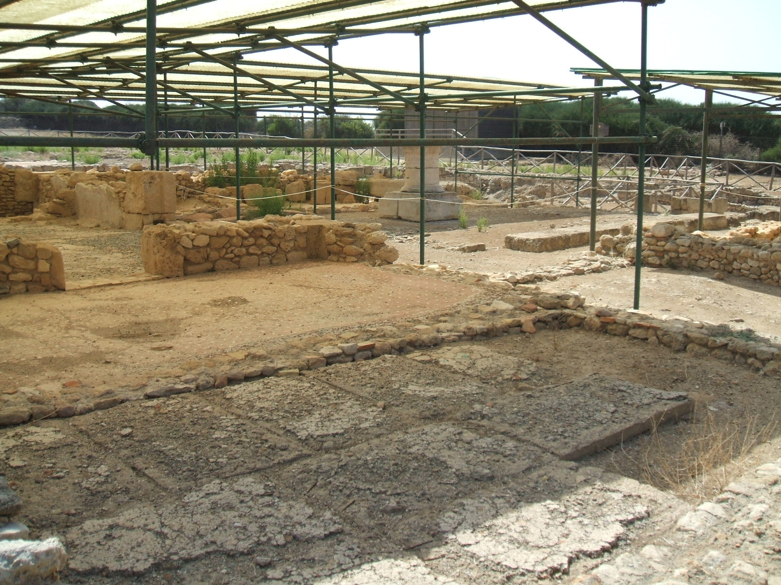 Camarina archaeological site : House of the Altar quarter